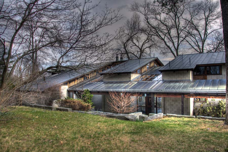 View of Indian Hill House looking from the north woods.